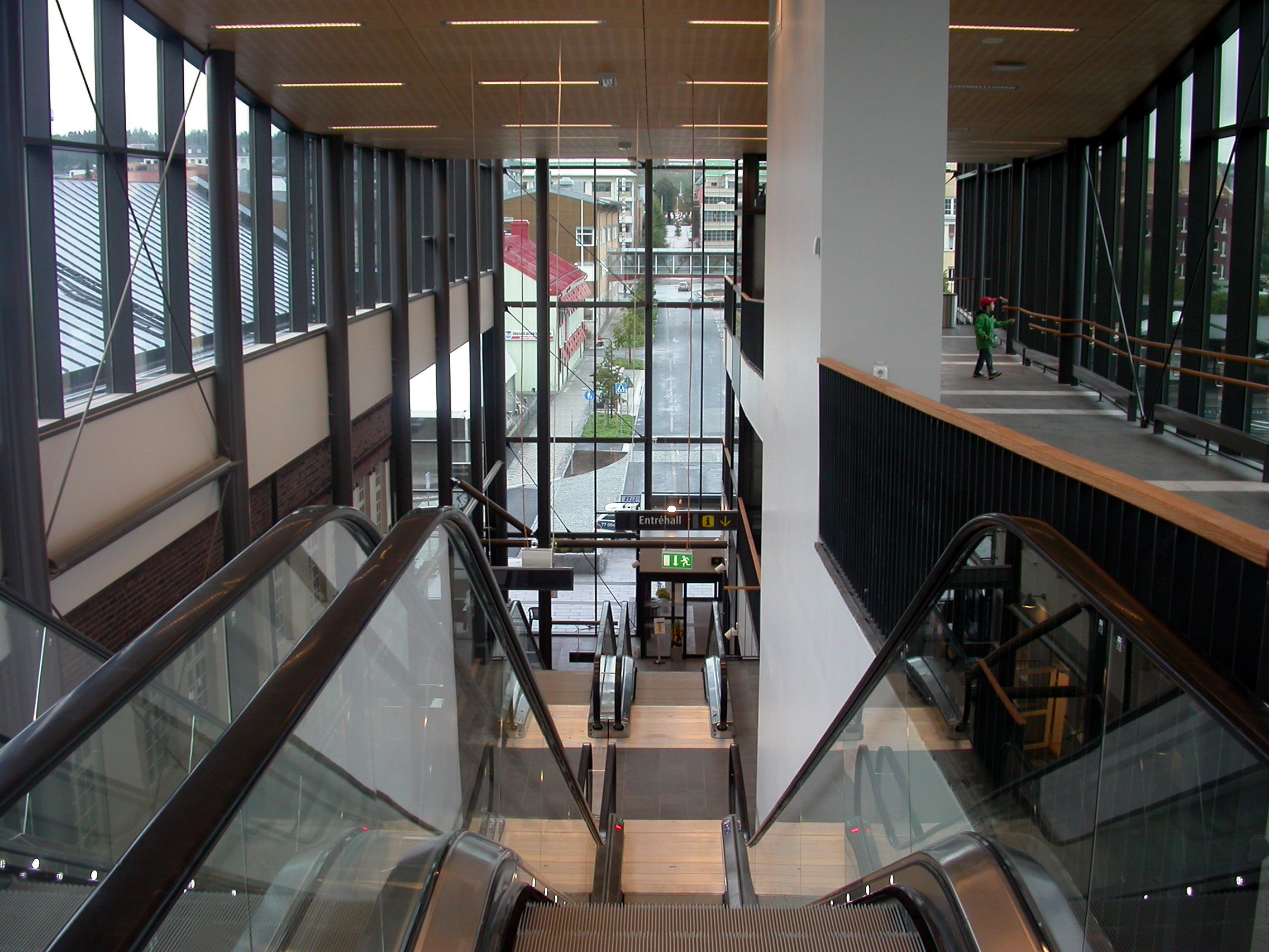 Interior of Örnsköldsviks combined train and bus station. Opened august 28, 2010.